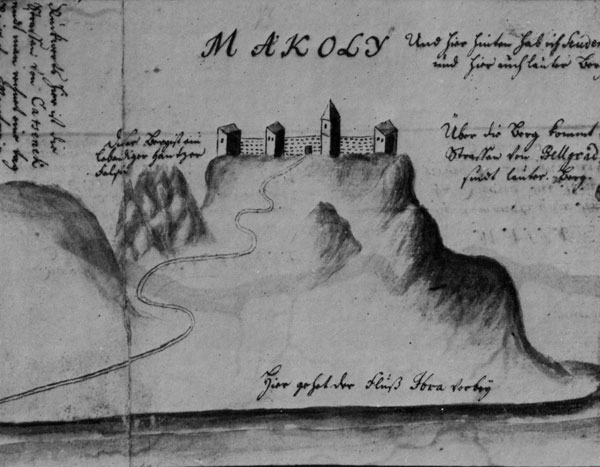 Old austrian plan of Maglič Fortress near Kraljevo, Serbia.